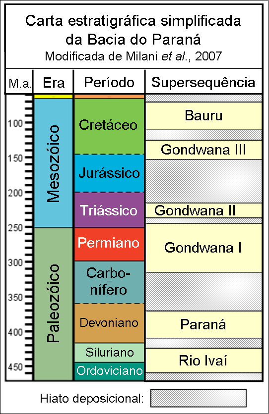 Simplified Stratigraphic chart of Paraná Basin, South America